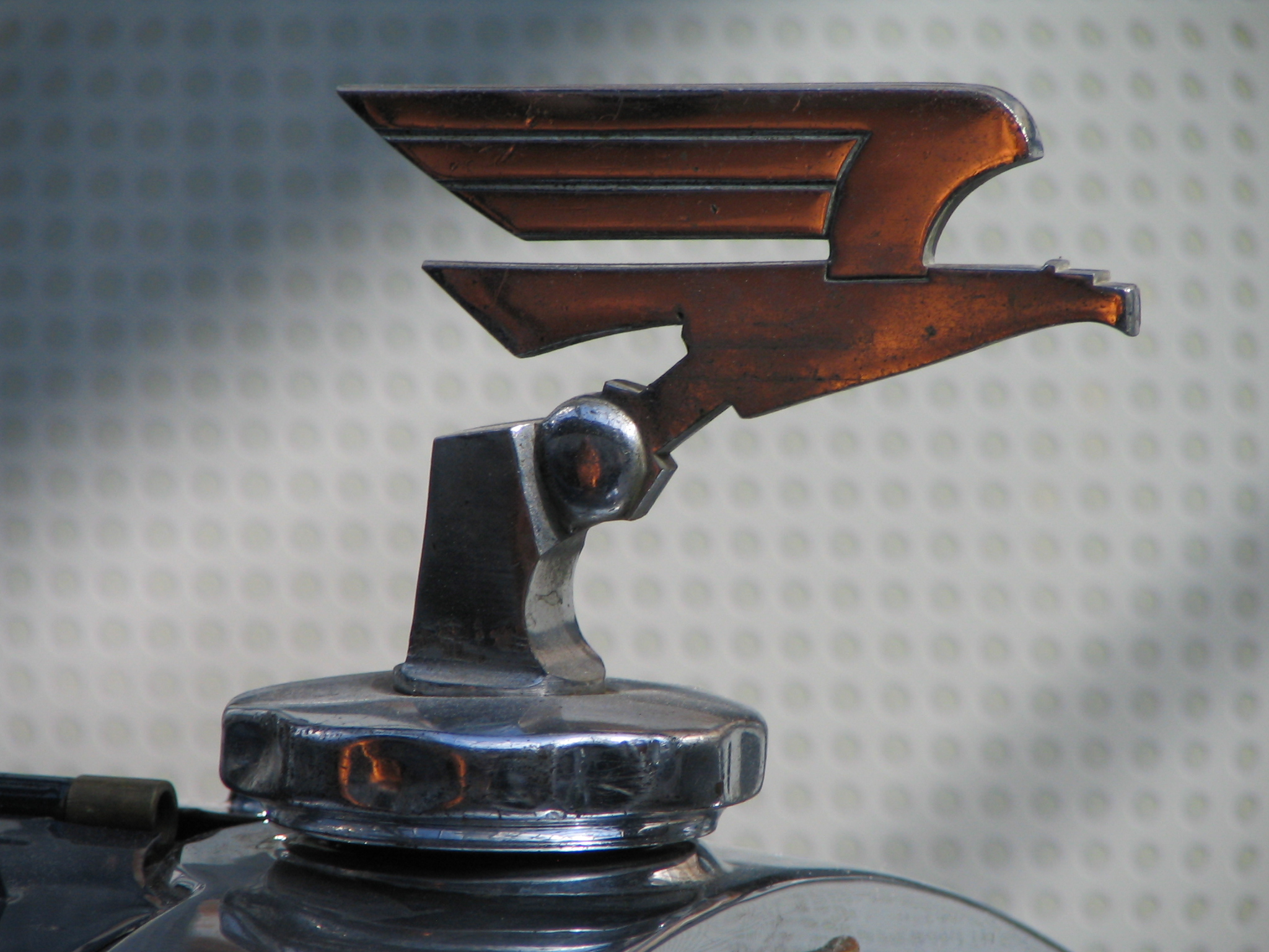 Hood ornament on an Adler Standard 6 (Build years: 1928-1934)